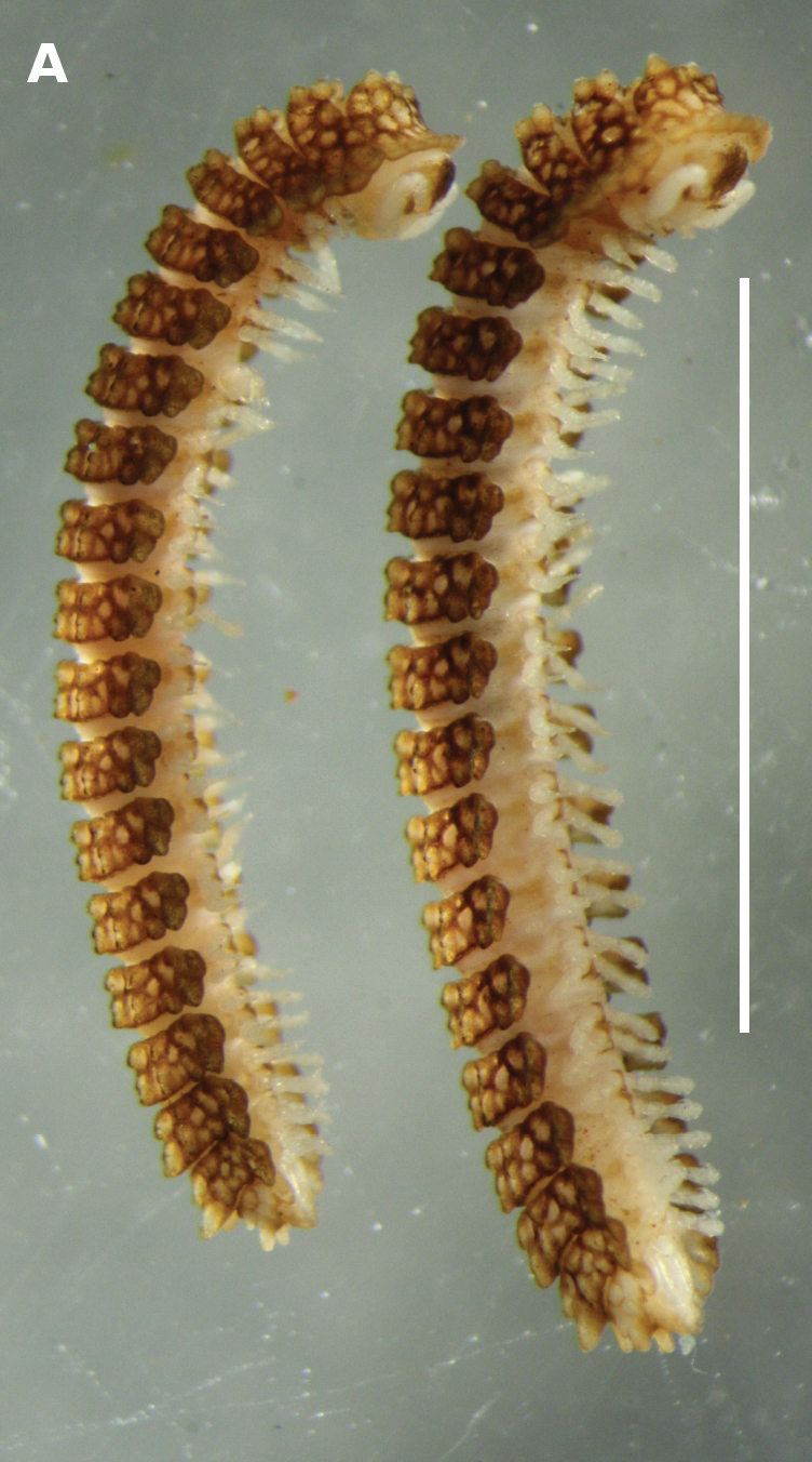 Notopyrgodesmus kulla male (left) and female (right) paratypes ex QM S92793. Scale bar = 5 mm.